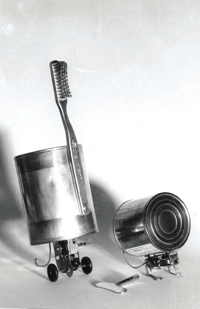 Dieter Reick, "Self-driving toothbrush" (1968) and "Hopper" (1969), multiples, tin cans with clockwork motor.